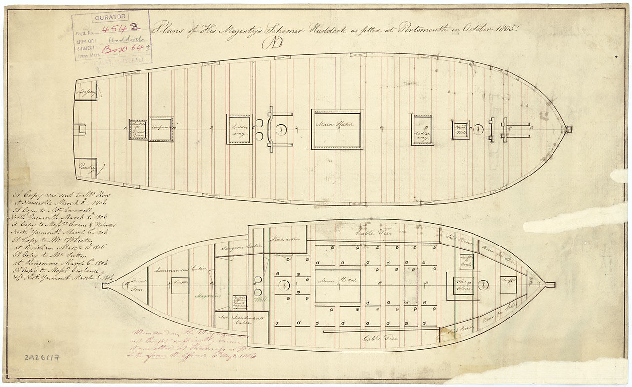 Technical drawing; paper; black ink; red ink; green ink.